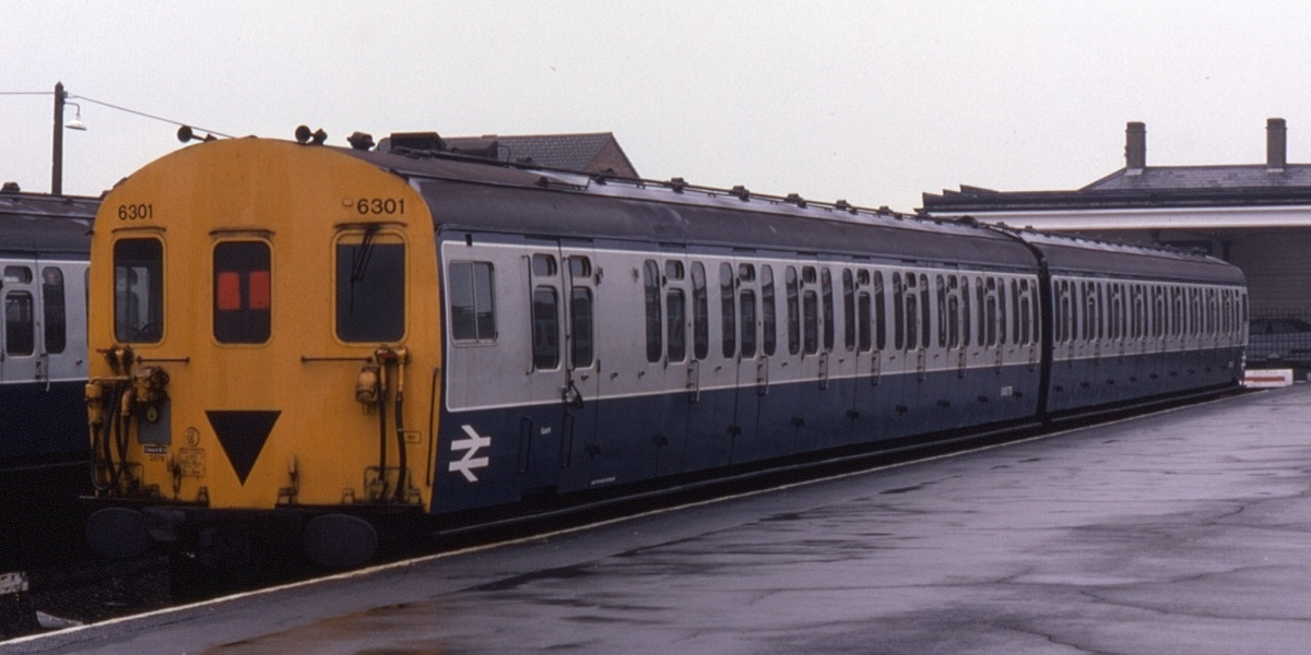 Original description: Between duties at the Surrey branch line terminus of Tattenham Corner. on 31 March 2-car 2EPB set 6301 having arrived on the 10:10 from Purley. Note: cropped from the original on 14 February 2016 by Hassocks5489